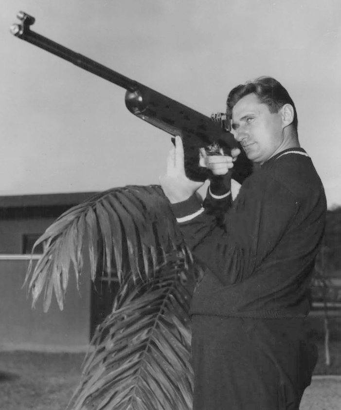 1954 Press Photo Vassily Borisov, Russian shooter at World Shooting Championship